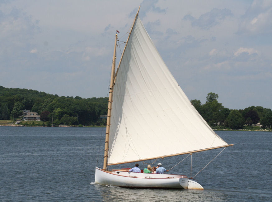 Mystic Seaport maritime museum in Connecticut. Cat boat Breck Marshall